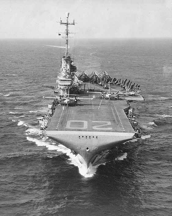 The U.S. Navy aircraft carrier USS Bennington (CVA-20) at sea during her deployment to the Western Pacific from 15 October 1956 to 22 May 1957. On deck are various aircraft of Air Task Group 201 (ATG-201). On the catapults are two North American AJ-2 Savage bombers of Heavy Attack Squadron 6 (VAH-6) Det. N "Fleurs".